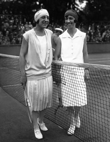 Tennis players Suzanne Lenglen and Dorothy Shepherd-Barron at the Racing Club de France in 1926.